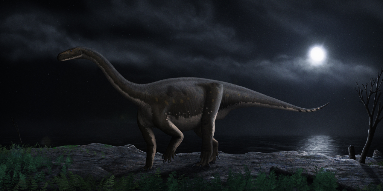 Melanorosaurus readi restoration, • Based proportionally on a skeletal reconstruction by Scott Hartman. [1] • The coastal setting is not meant to imply that this animal lived near the coast. It was chosen for artistic reasons. • The colours and/or patterns, as with nearly all reconstructions of prehistoric creatures, are speculative. NOTE: I often update my images. If you want to have any of my images on a website, please (if possible) don’t host/save it to the website server. I’d prefer it if the image's Wikimedia URL is used. This means that if I update an image, it will be updated on the site as well. Thanks.